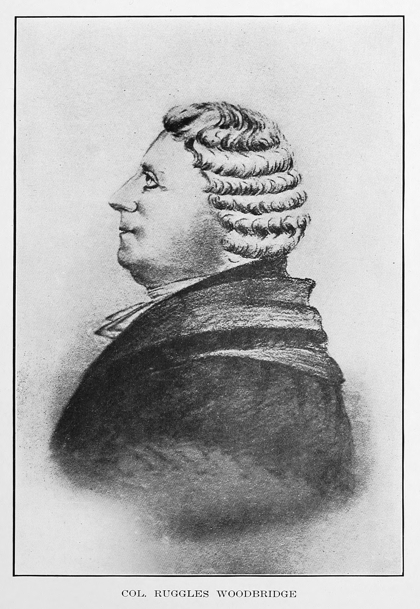 Portrait of Colonel (Benjamin) Ruggles Woodbridge. From the book by Sophie E. Eastman: In Old South Hadley, Blakely Print Co., Chicago, Illinois (1912). Page 140. ColWilliam 19:30, 3 November 2007 (UTC)